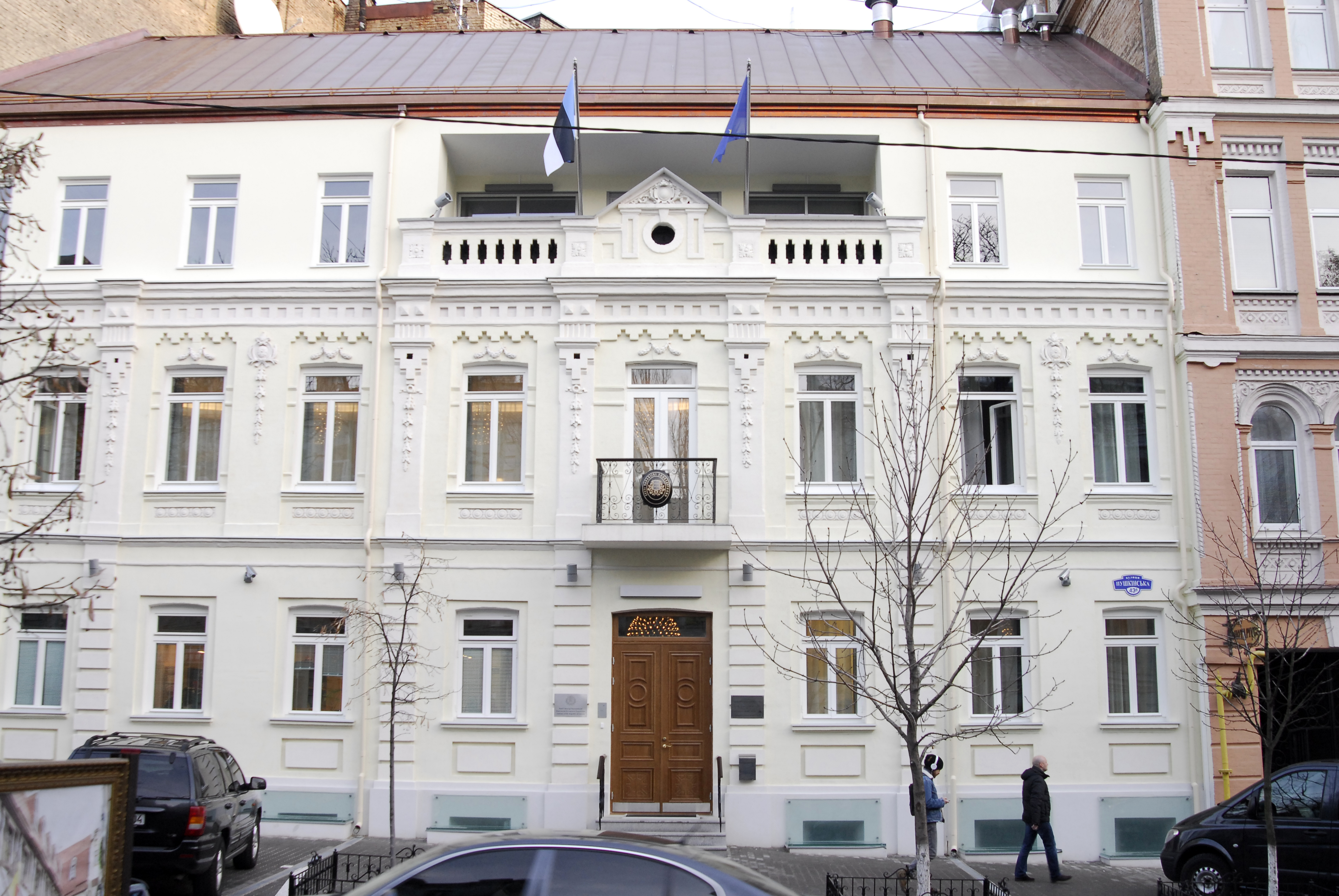 Estonian embassy building in Kiev